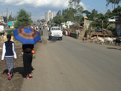 Downtown of Ambo, Ethiopia, street scene